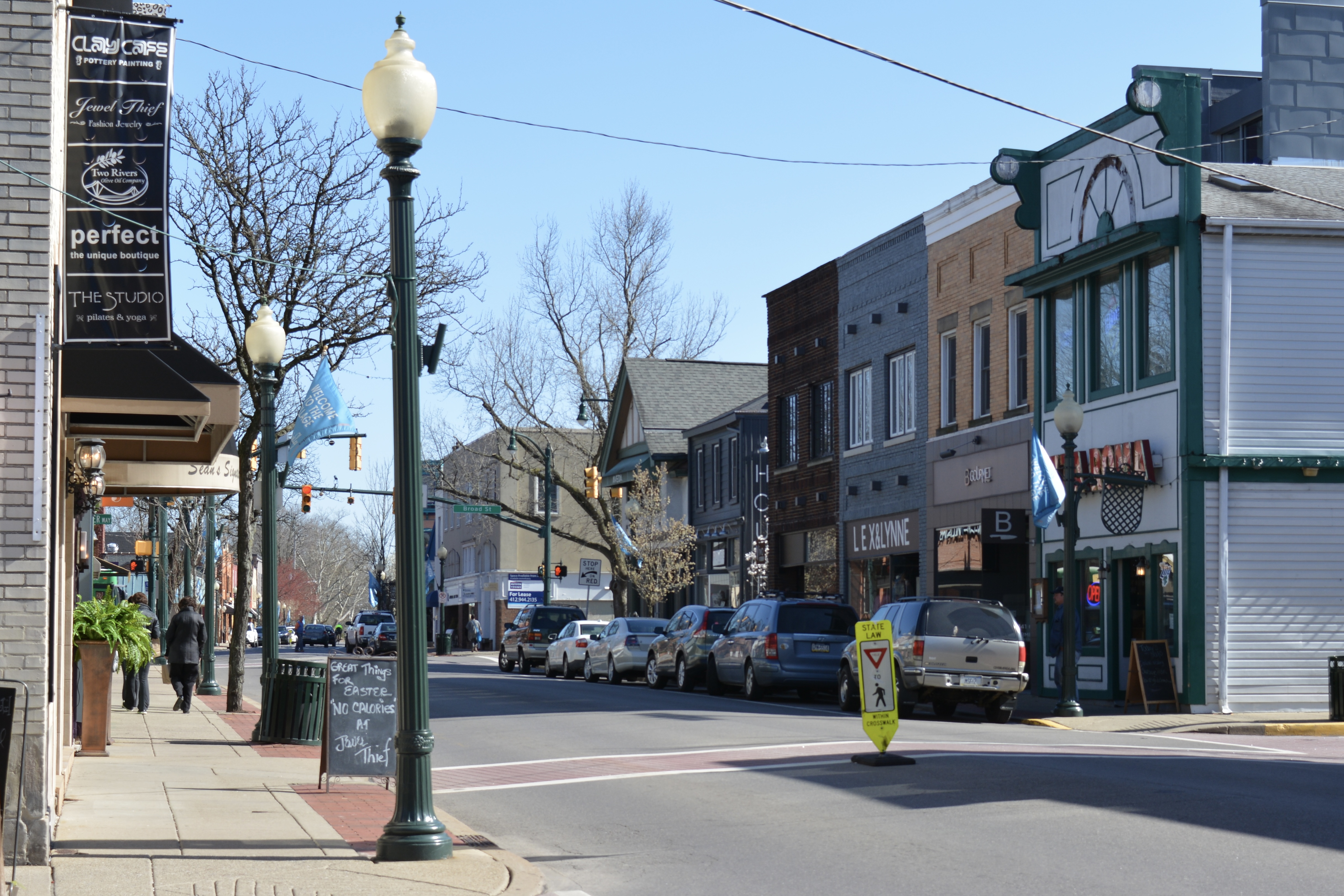 Downtown Sewickley